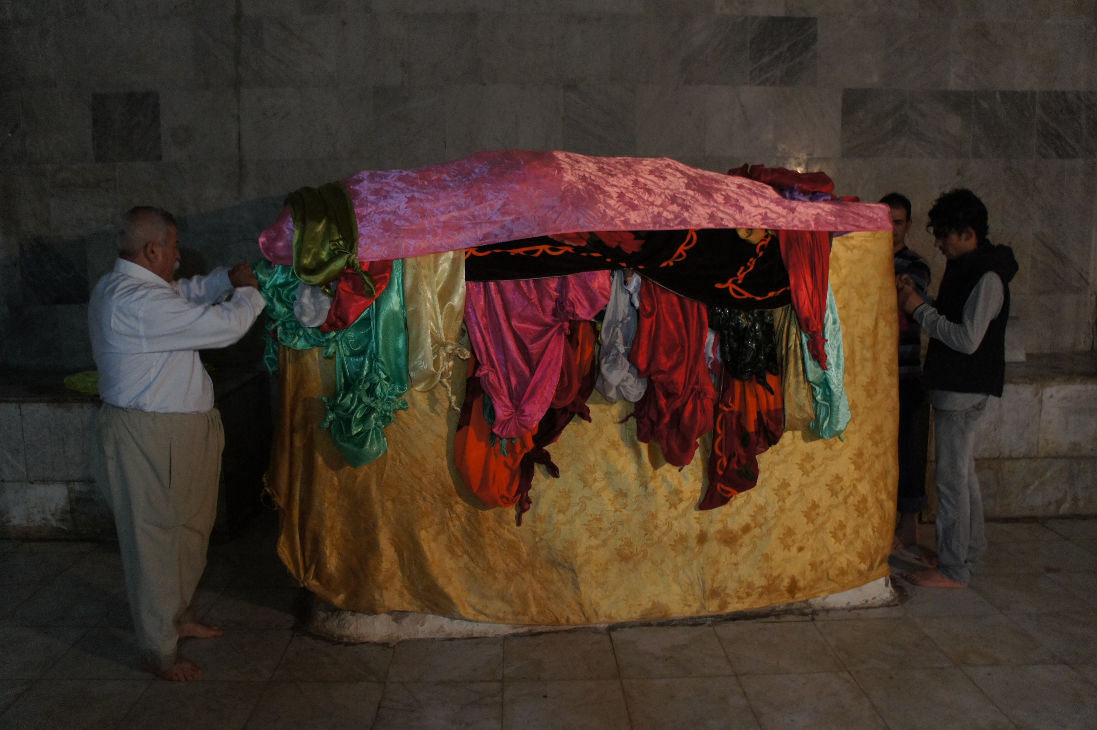 Shrine of Sheikh Adi ibn Musafir (Shaykh Adi) at Lalish Kurdî: Gora Shêx Adî, li Lalishê.